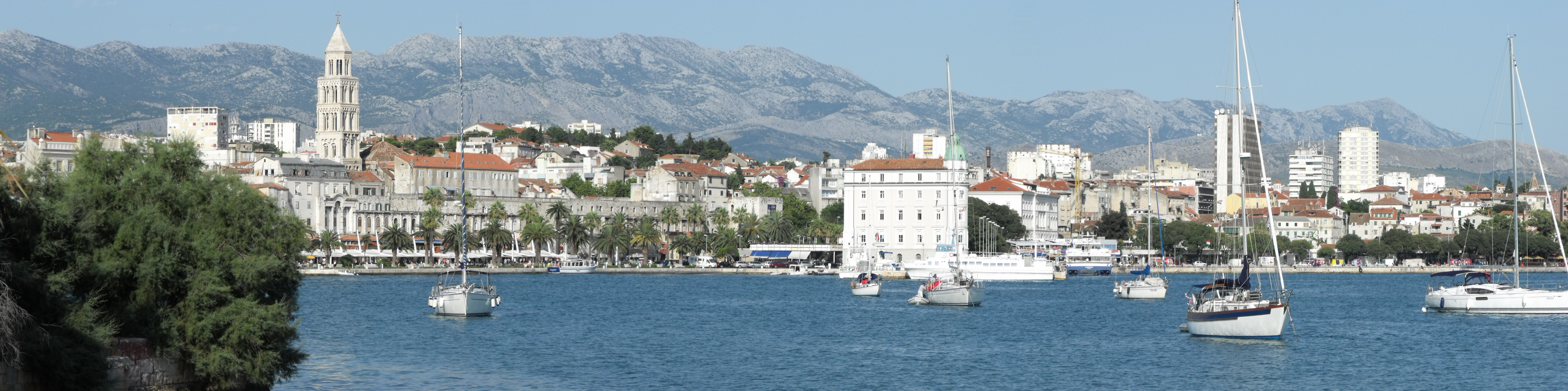 Panorama of the Riva in Split, Croatia